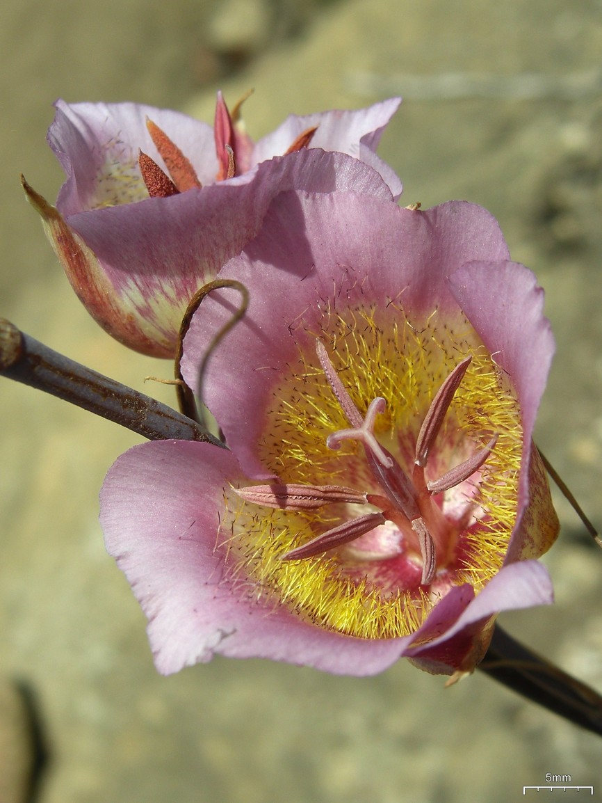 Calochortus plummerae. Mount Wilson, San Gabriel Mountains, Southern California. 20100621.101